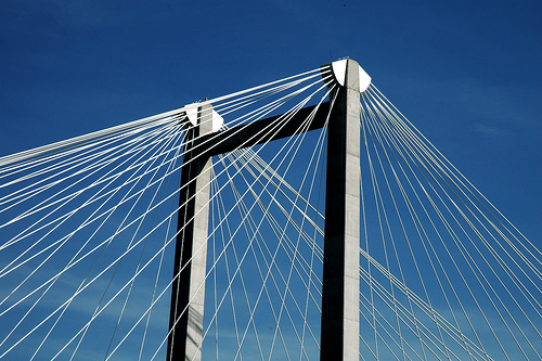 Cable Bridge, Washington, USA.